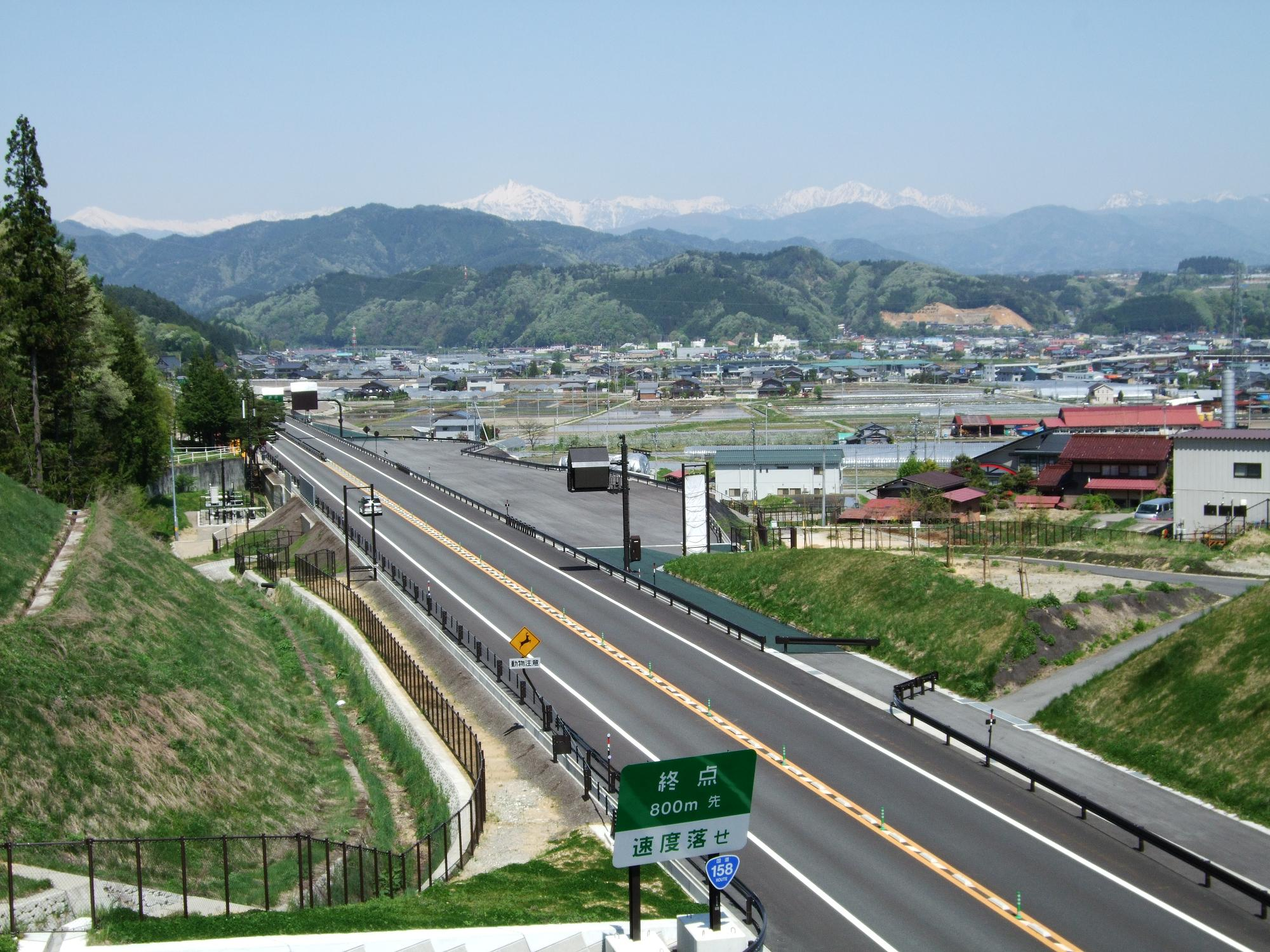 Takayama Interchange on the Chubu-Jukan Expressway (Takayama-Kiyomi Road)